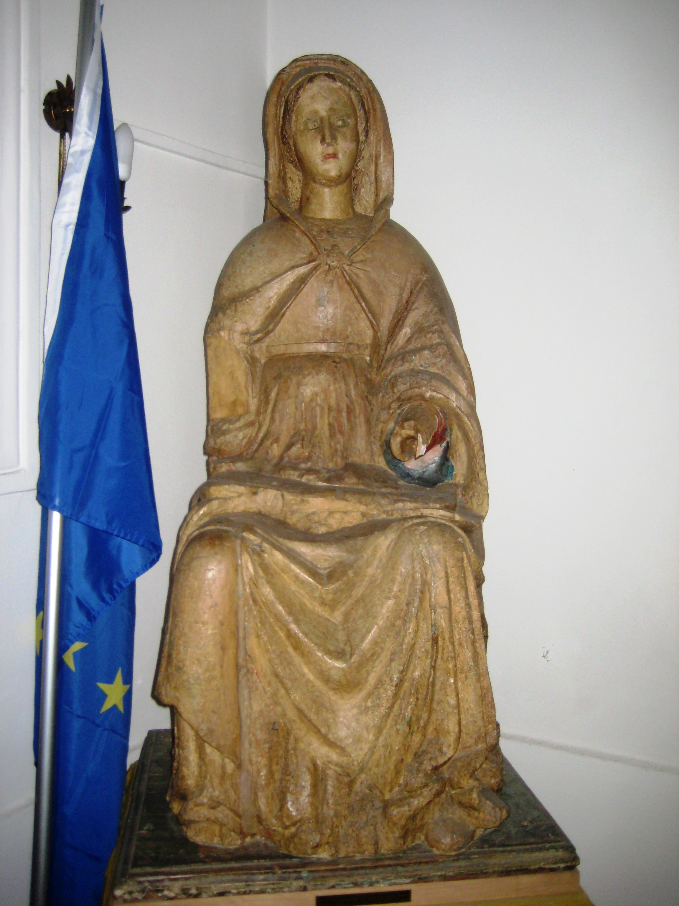 Statua della Madonna di Costantinopoli - sec. XV - conservata presso la Chiesa Matrice di San Giovanni Battista in Striano (Napoli)